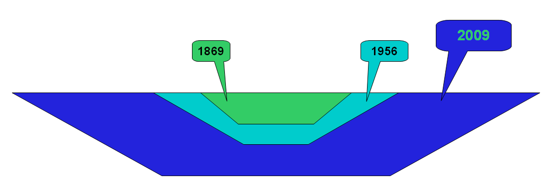 Suez Canal, cross sections in years 1869, 1956, 2009. Not to scale, vertical dimensions inflated.